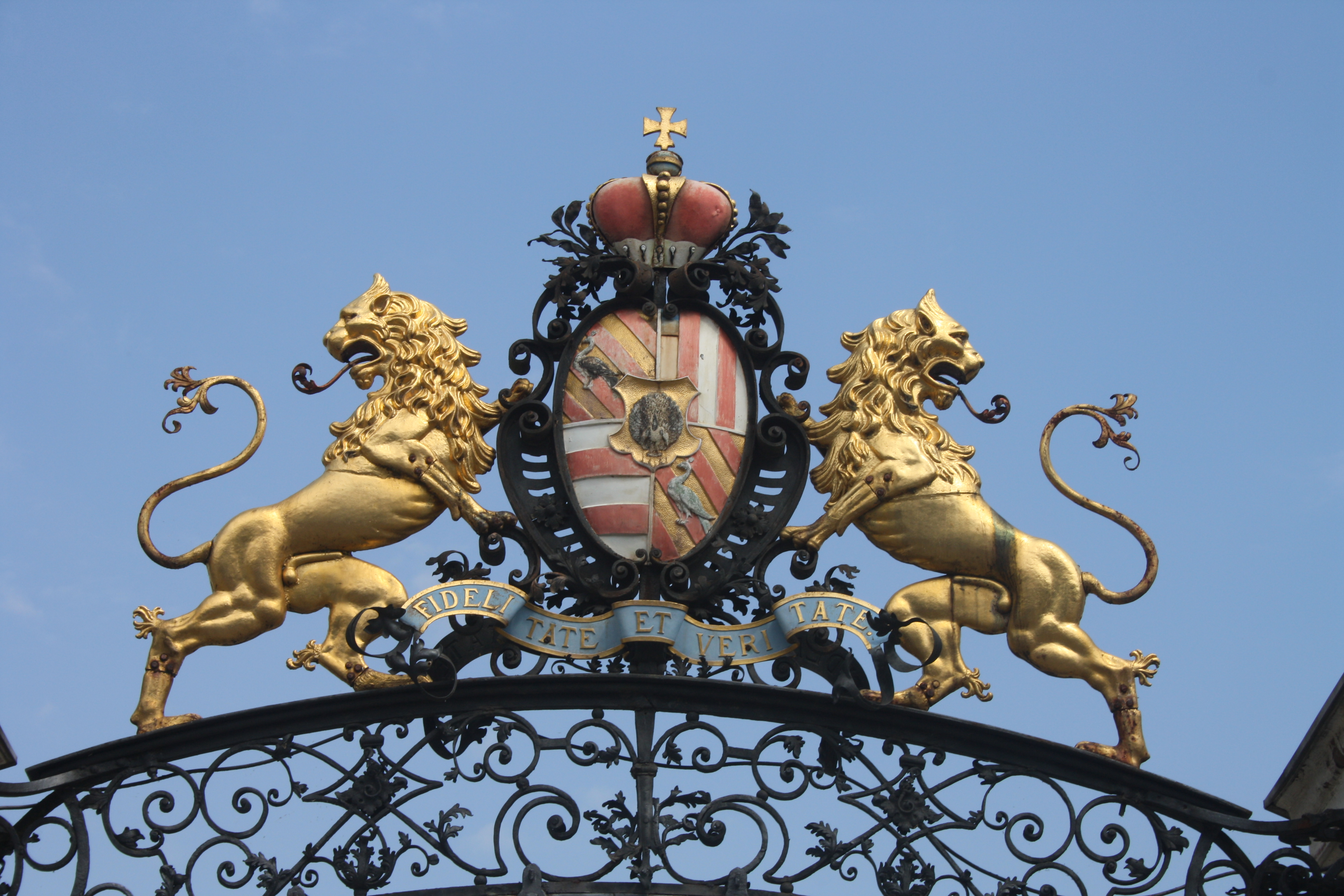 Neuwied, Germany: Castle of the former Princes of Wied. Coat of arms at the main gate.